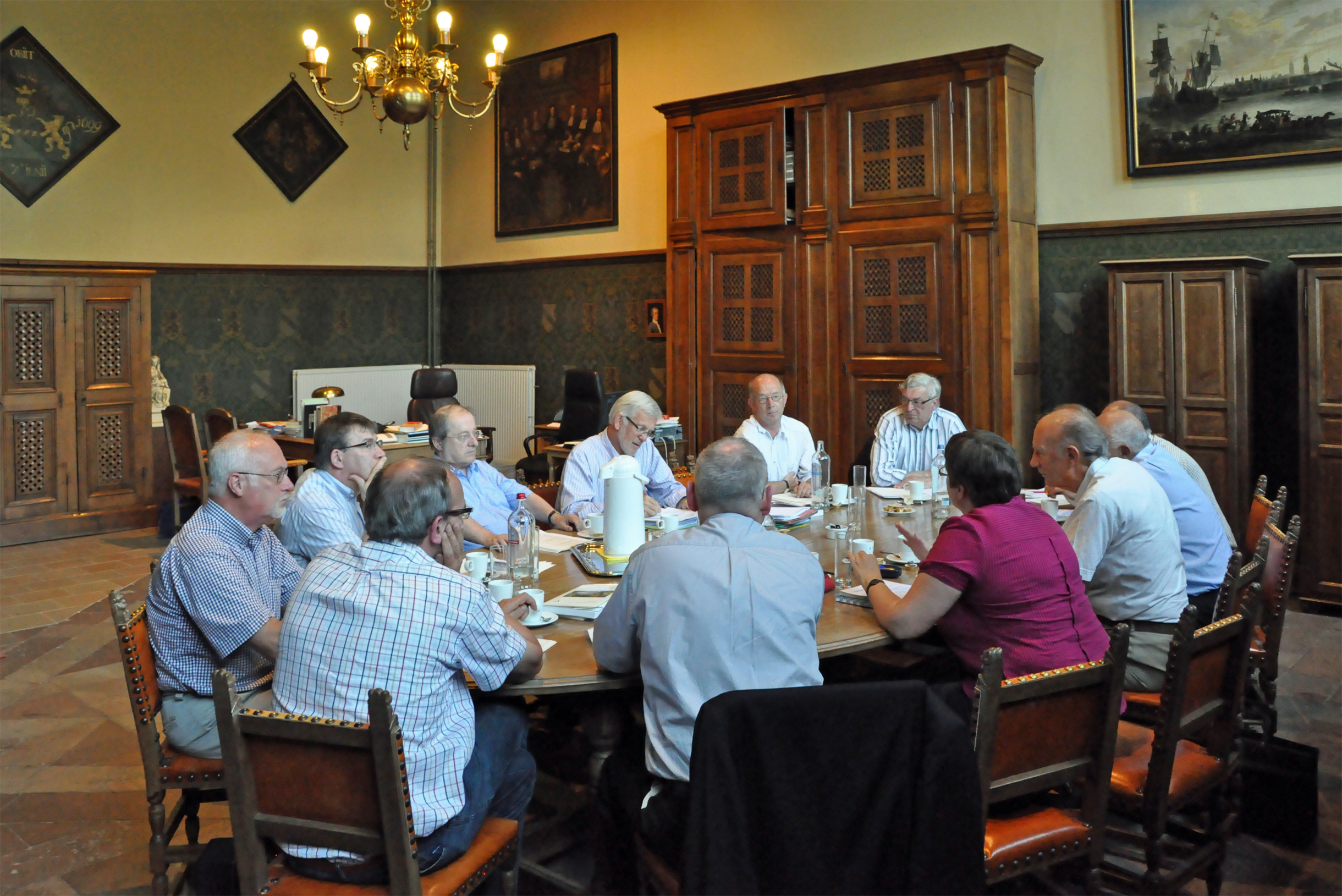 Genootschap voor Geschiedenis (Historical Association) of Bruges, Belgium: board meeting, june 2010